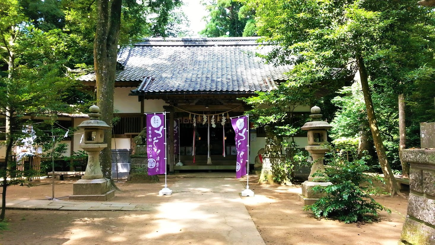 Hiyoshi Shrine in Togane City, Chiba Prefecture, Japan